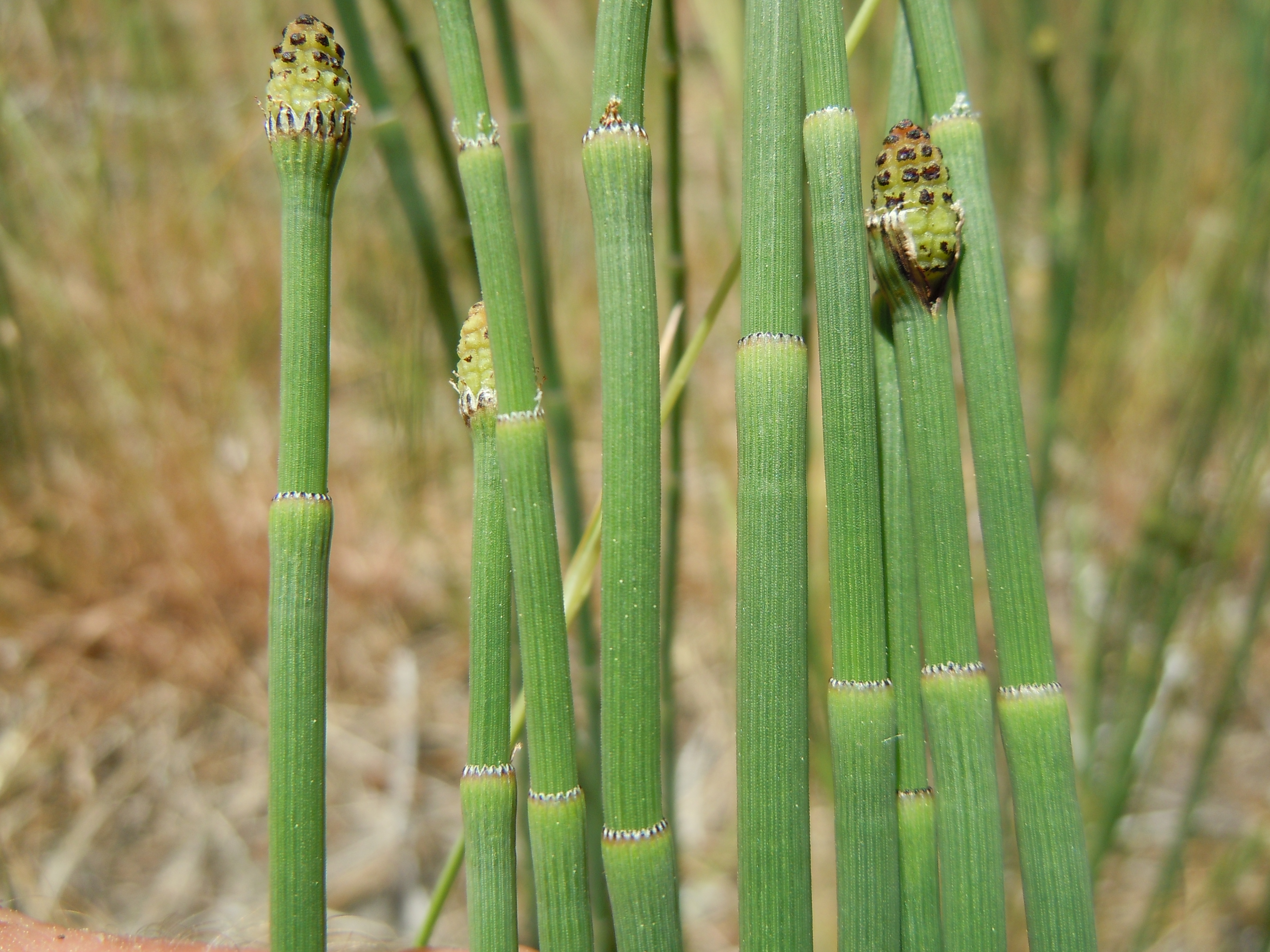 The single black band at the end of each sheath and the teeth lining the end of each sheath that are deciduous with the remaining parts mostly fused are some of the diagnostic traits of this horsetail species.